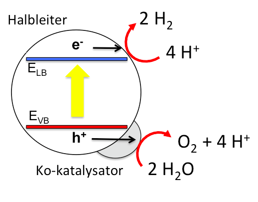 Light excitation creates electron hole pairs for water electrolysis